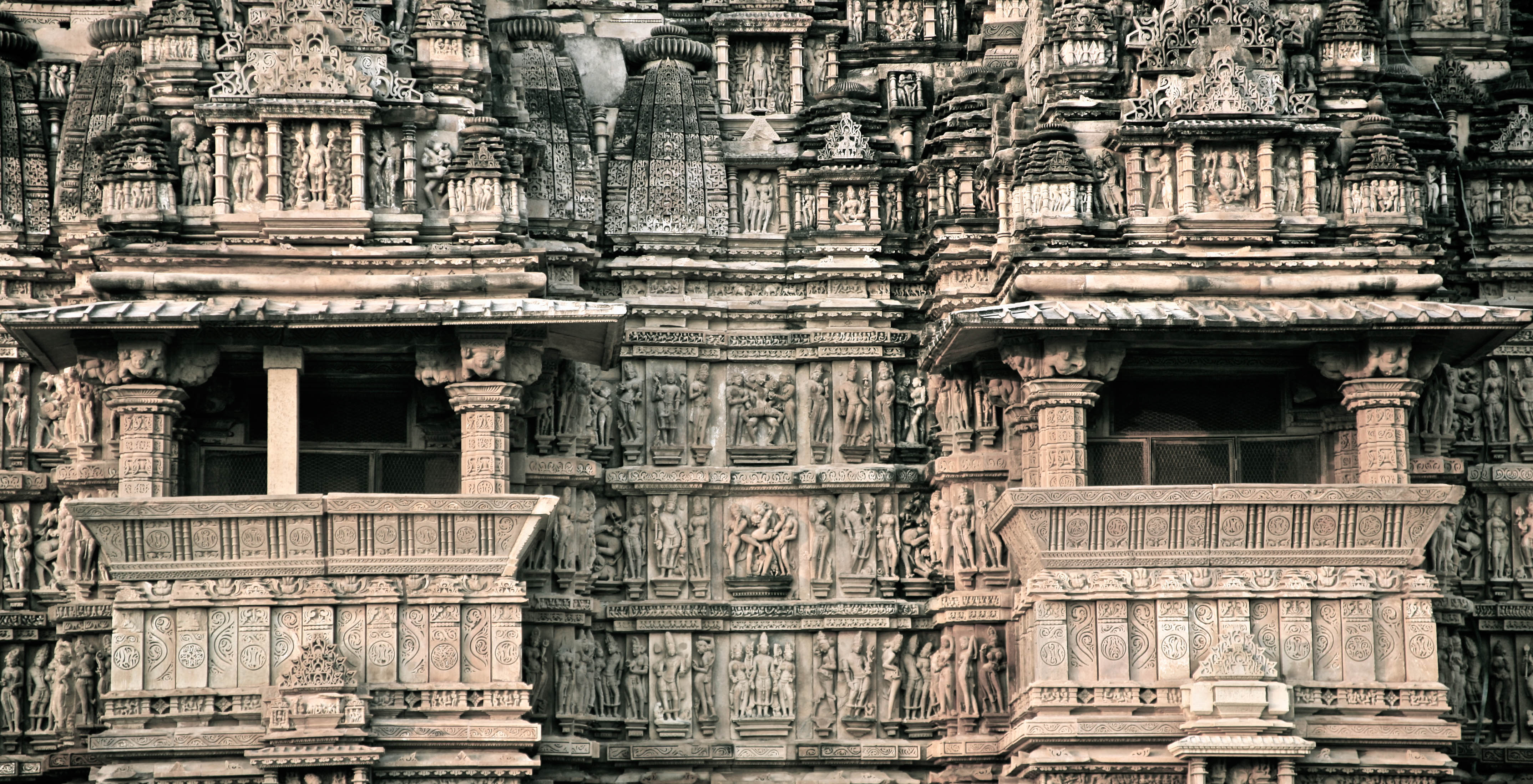 Vishvanath temple